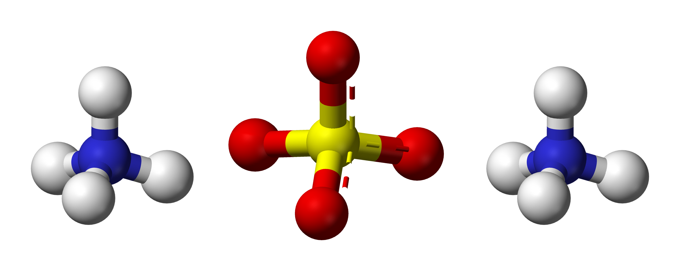 Ball-and-stick model of ammonium sulfate, an important artificial fertilizer, showing two ammonium cations and one sulfate anion.